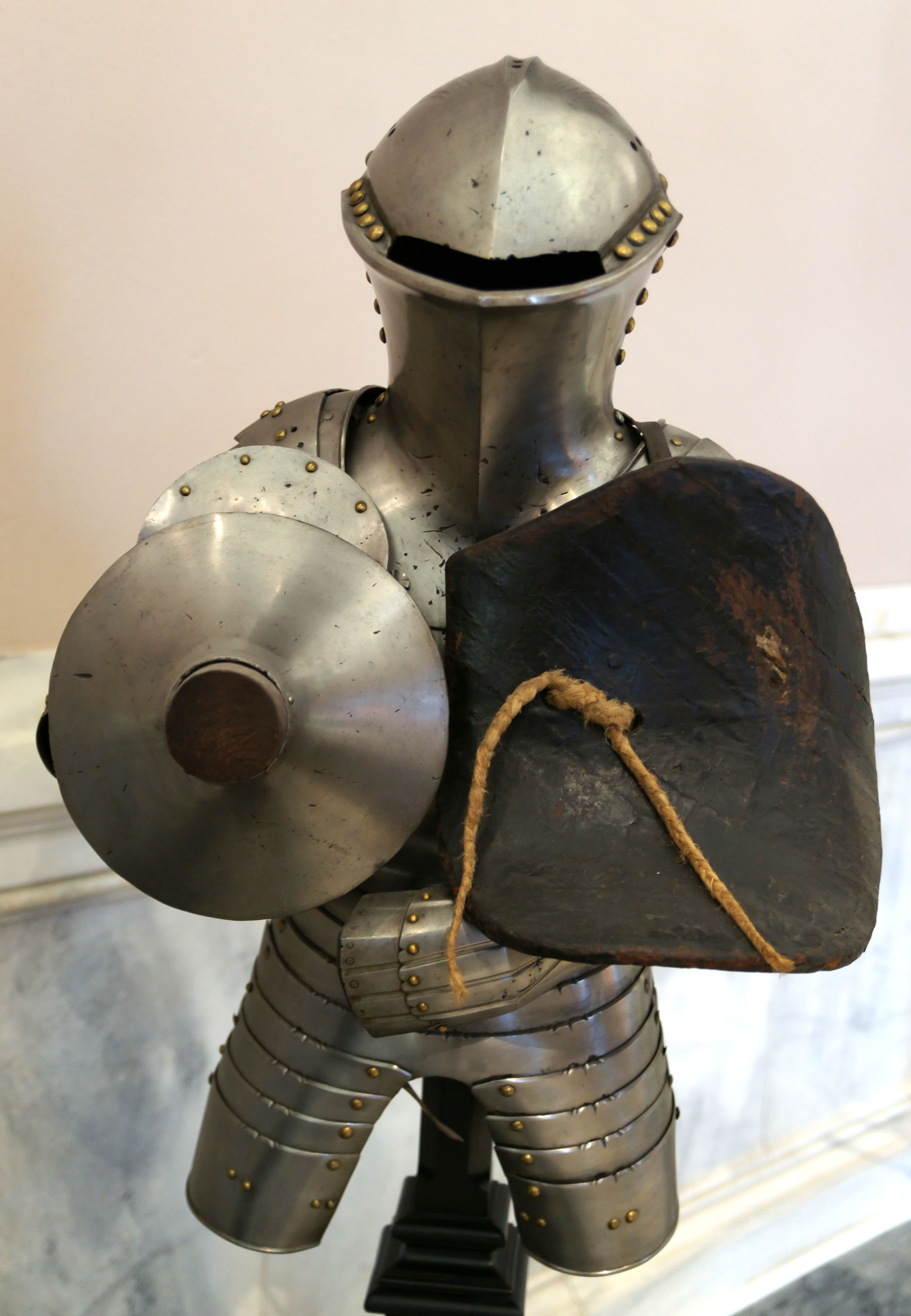 Jousting armour of John, Elector of Saxony, known as John the Steadfast or John the Constant (30 June 1468 – 16 August 1532), made about 1497 (Deutsch) and 1505 (Poler).